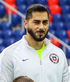 Chile national football team